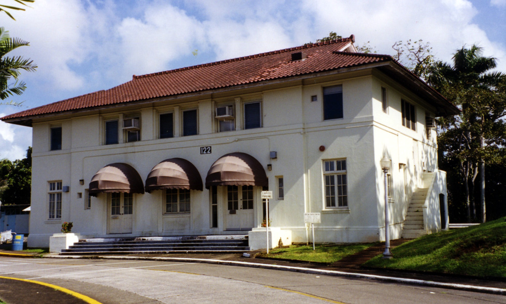 Gatun: 122 Bolivar Hwy, former dispensary/clinic.